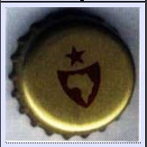 Cap of Africa Star bottle